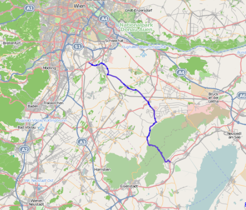 map of B15 in Austria.